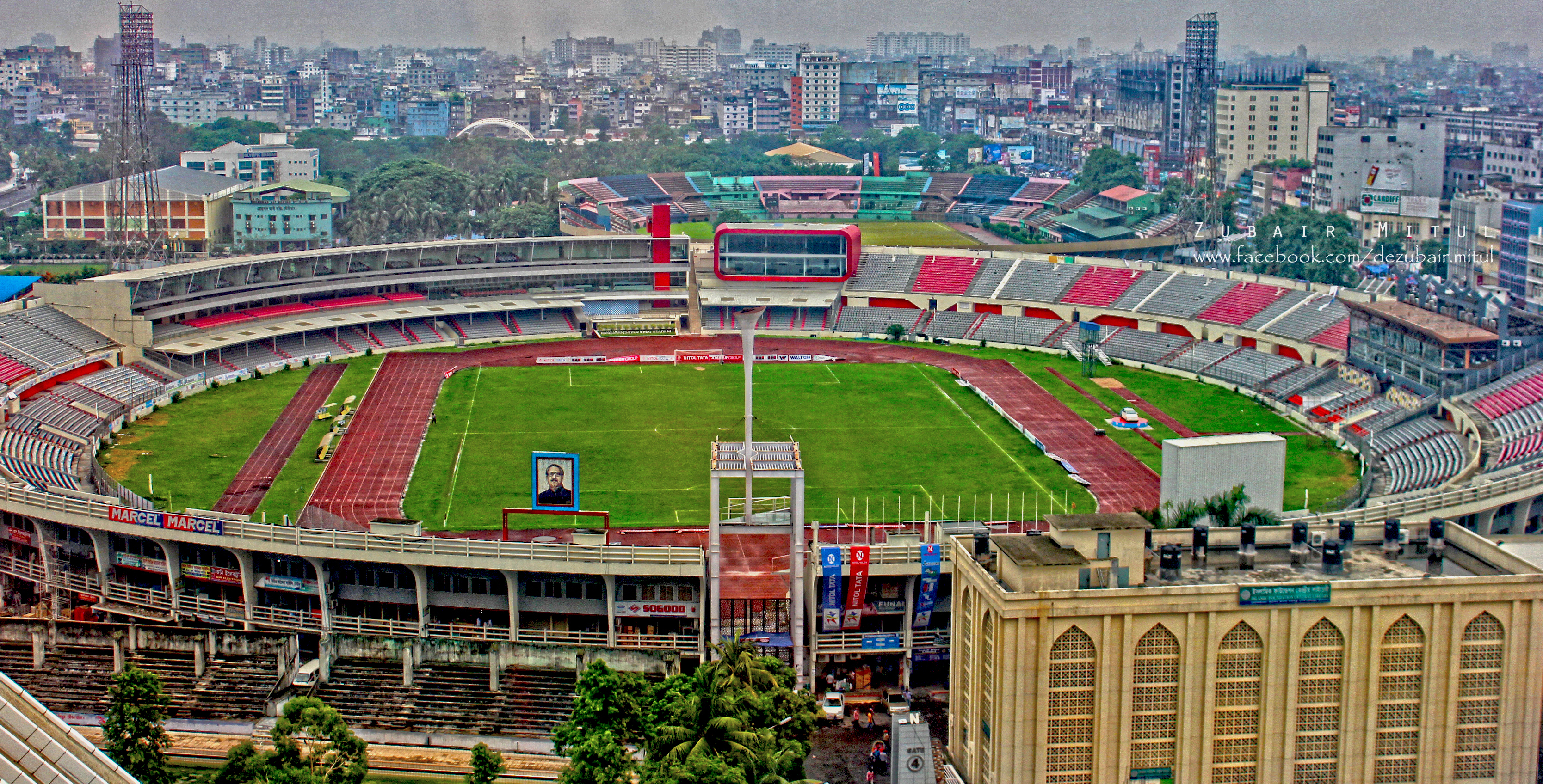 Bangabandhu National Stadium, also known as Dhaka Stadium, and formerly known as Dacca Stadium is the national stadium and a multipurpose sports arena in Dhaka, Bangladesh.